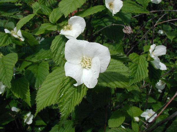 Rhodotypos scandens: Flower and leaves.